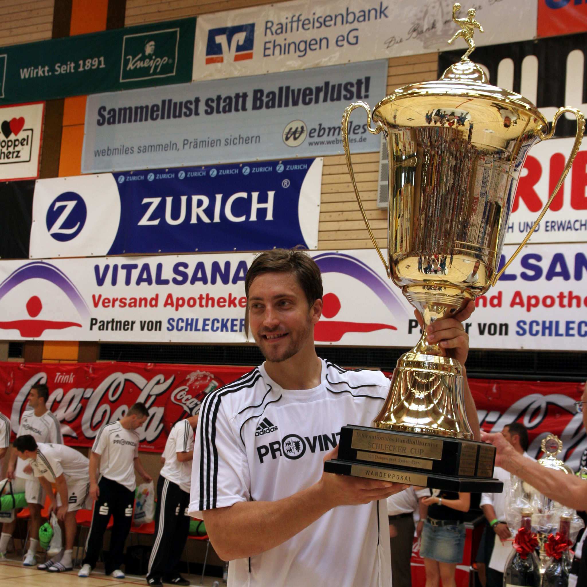 Marcus Ahlm, receiving the Schlecker Cup for the winning team THW Kiel. August 21st, 2011 in Ehingen (Germany).